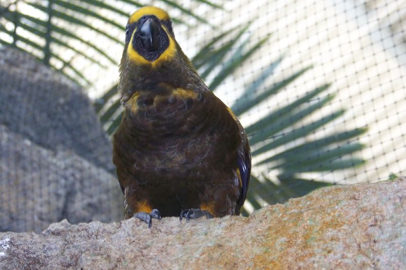 Brown Lory (Chalcopsitta duivenbodei) front.